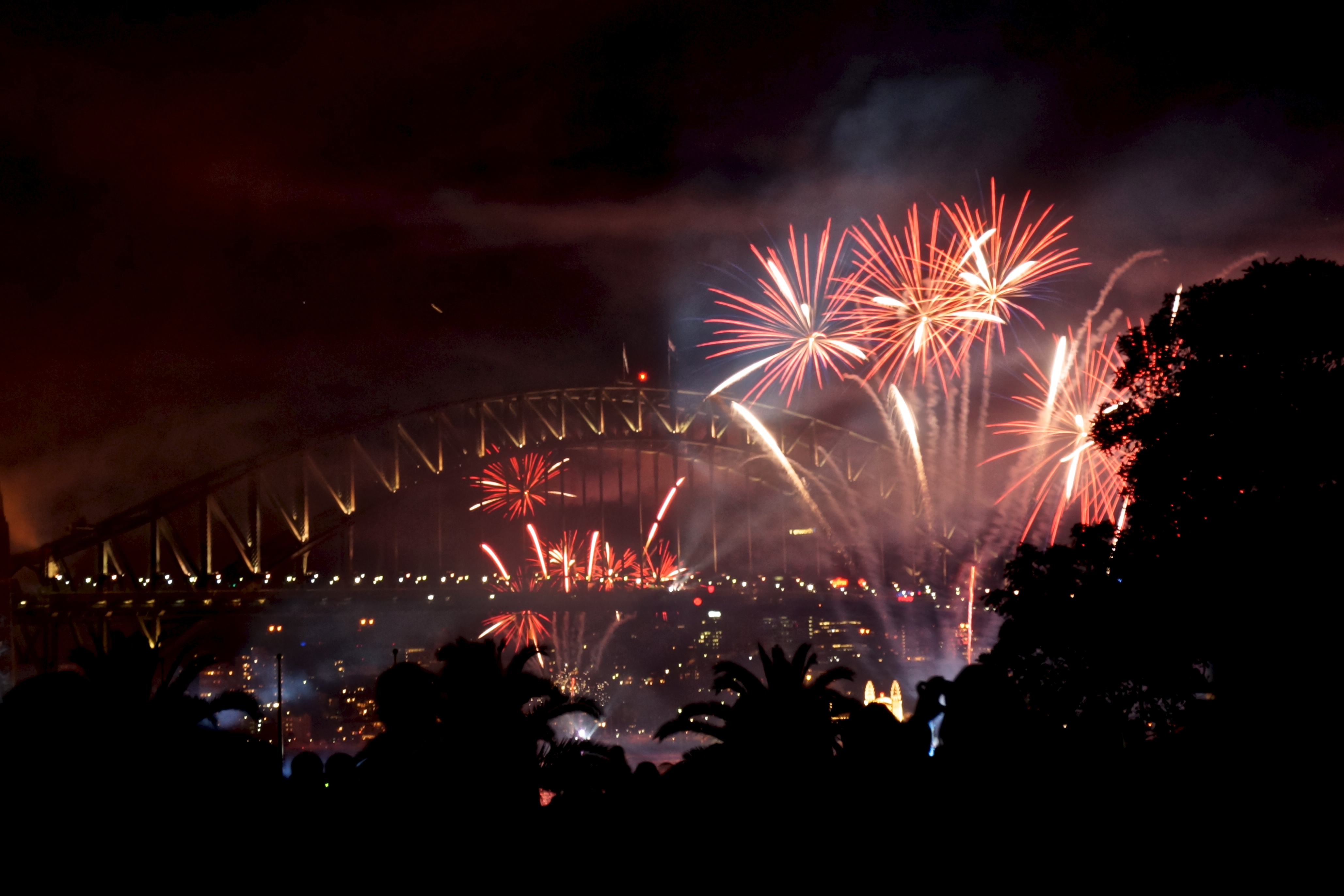 Fireworks for the International Fleet Review in Sydney, Australia